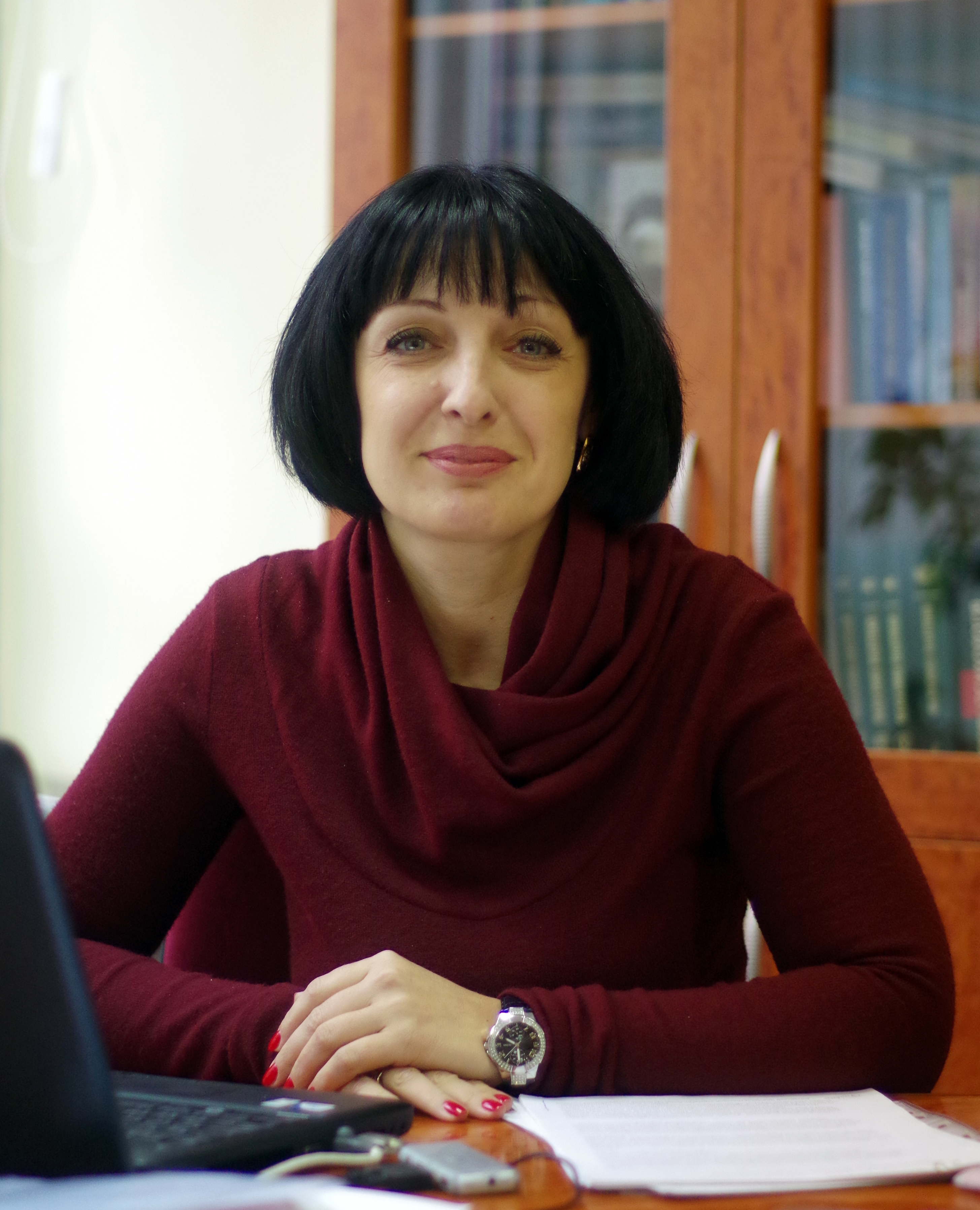 Foto, Lviv, Turchyn Jaryna